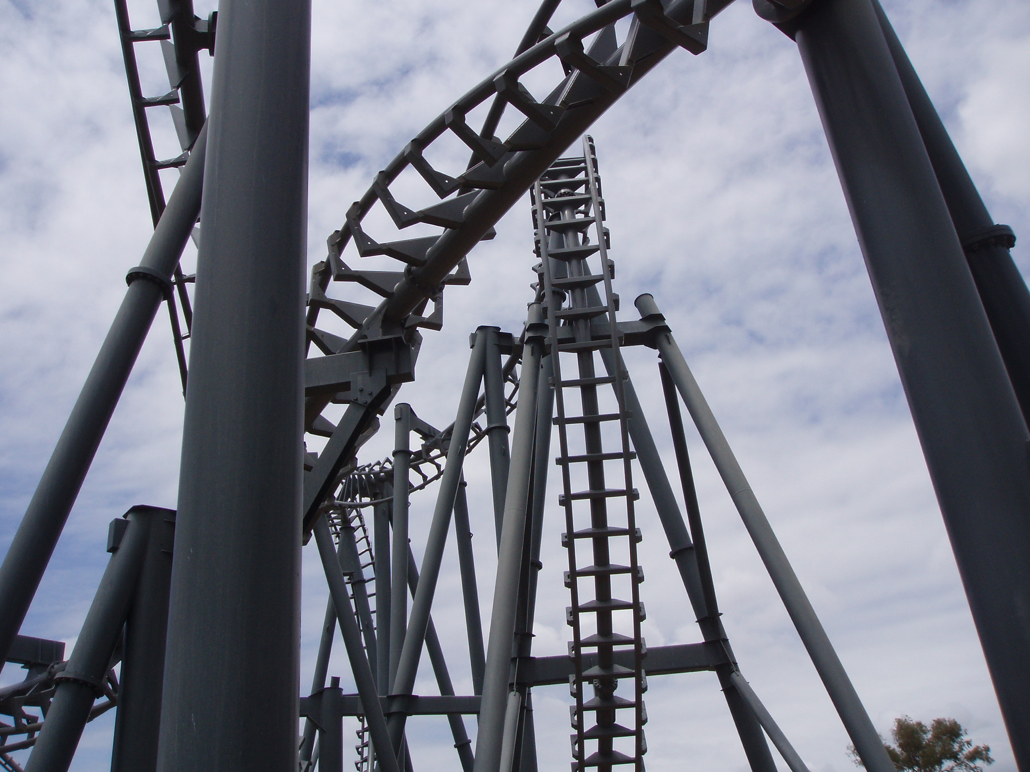 Photo taken by User: Jedd the Jedi of Lethal Weapon - The Ride at Warner Bros. Movie World.